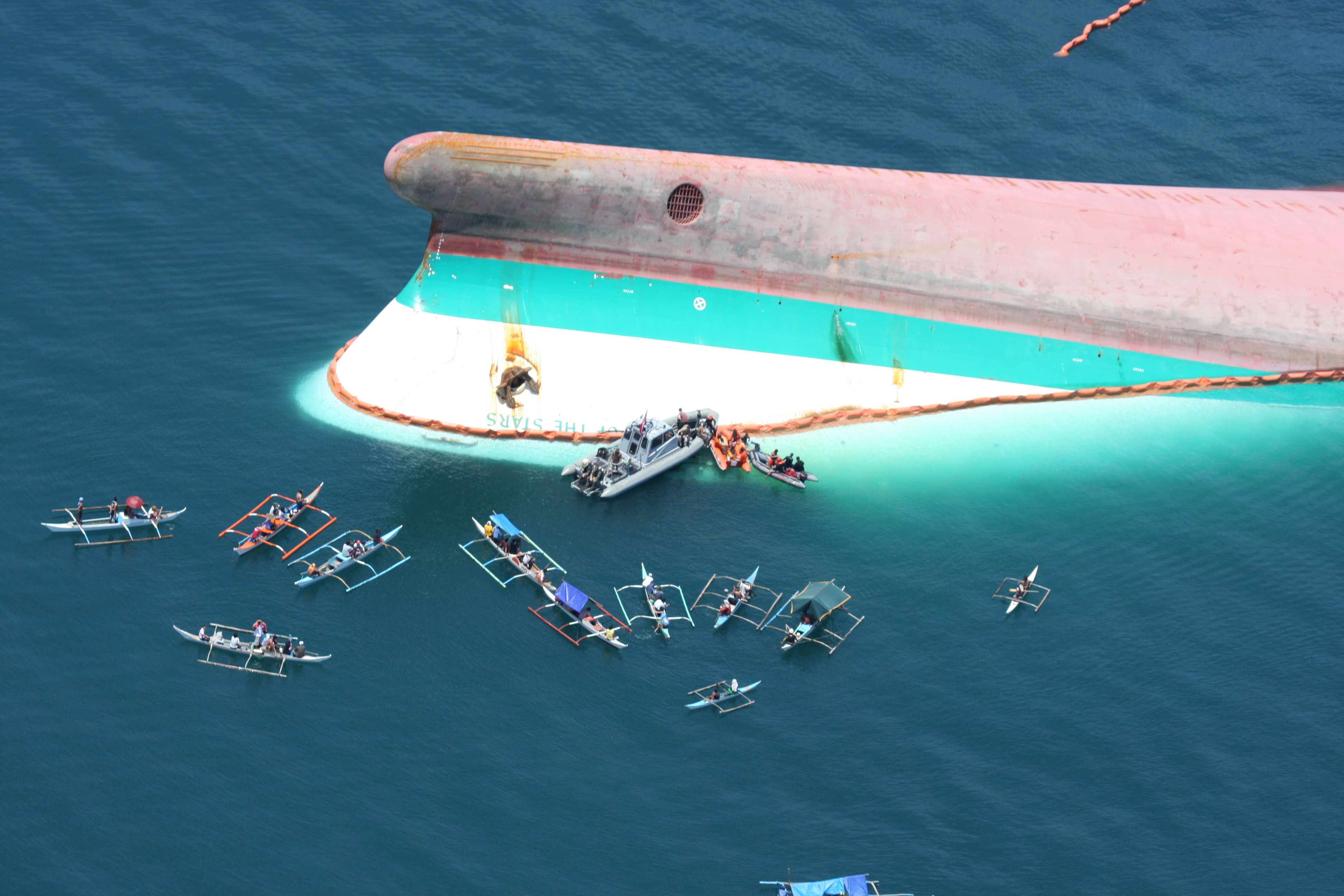 A rigid-hull, inflatable boat from Maritime Prepositioning Ship USNS GYSGT Fred W. Stockham helps search for survivors of the capsized commercial passenger ferry MV Princess of the Stars June 25. The ferry capsized during Typhoon Fengshen in the Philippines.